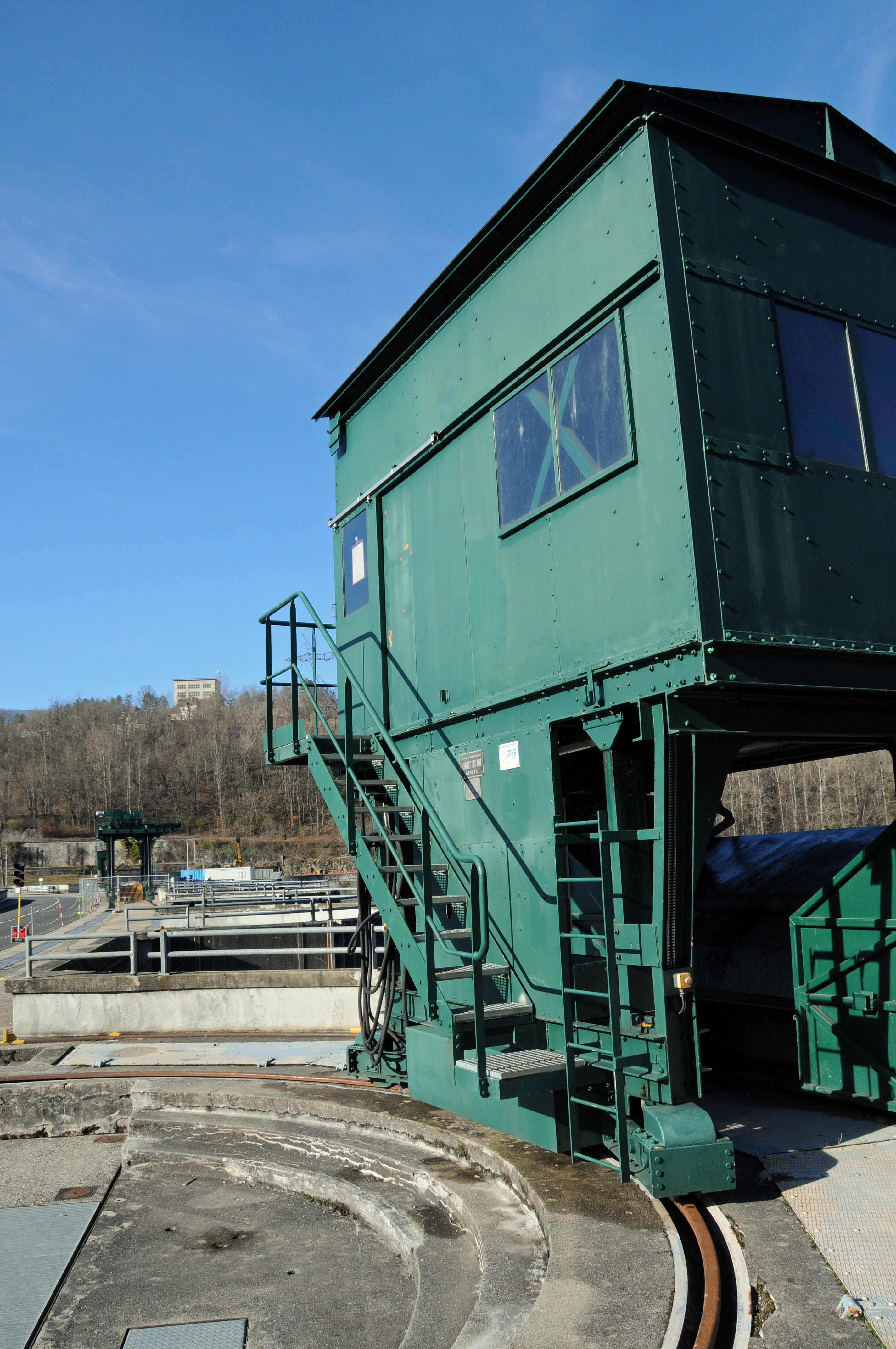 The automatic cleaner for water intakes